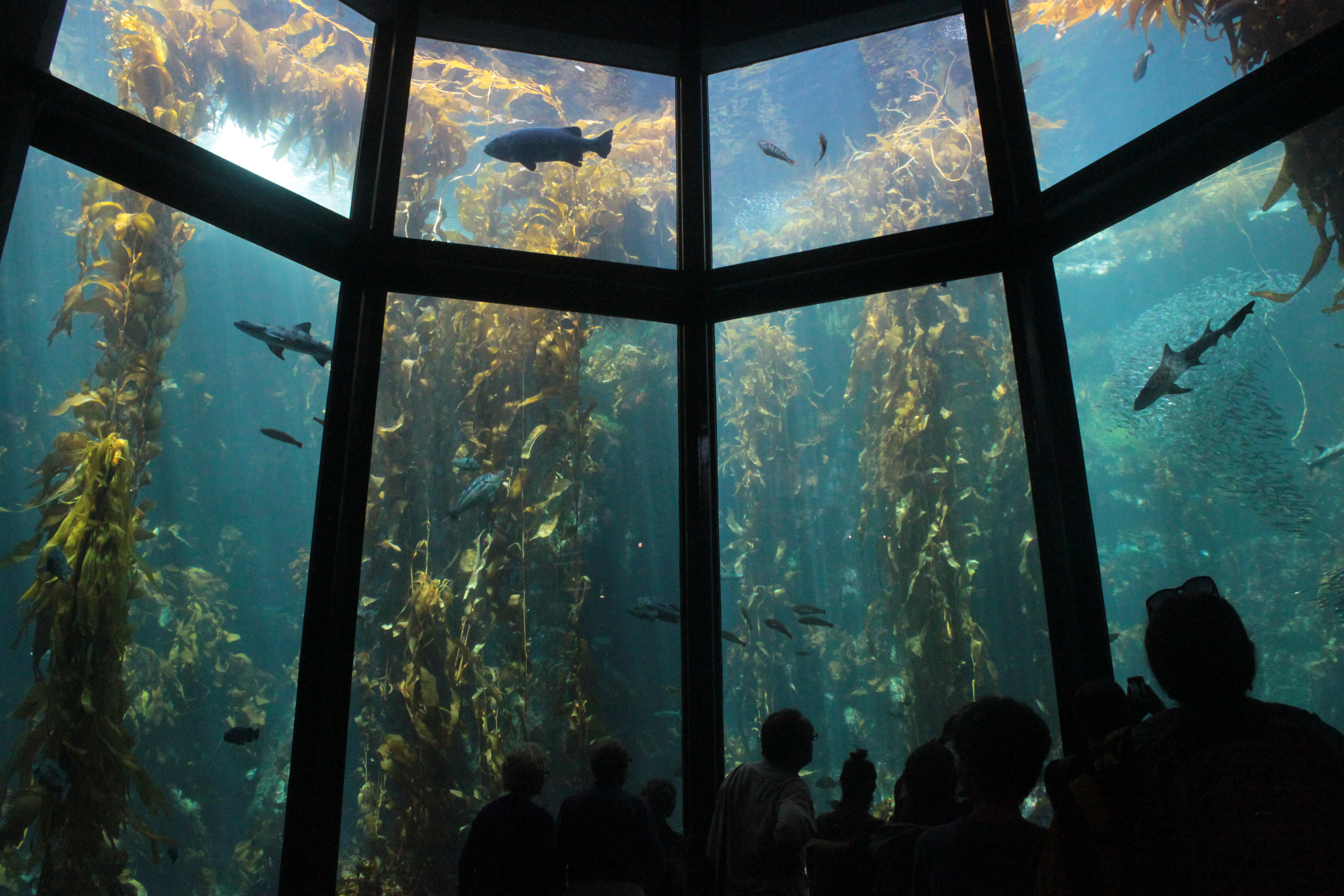 Full view of the main viewing window of the Monterey Bay Aquarium's Kelp Forest exhibit from the ground floor.